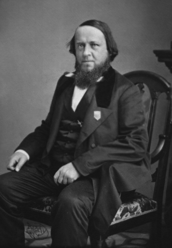 Benjamin Silliman, Jr. (December 4, 1816 – January 14, 1885)